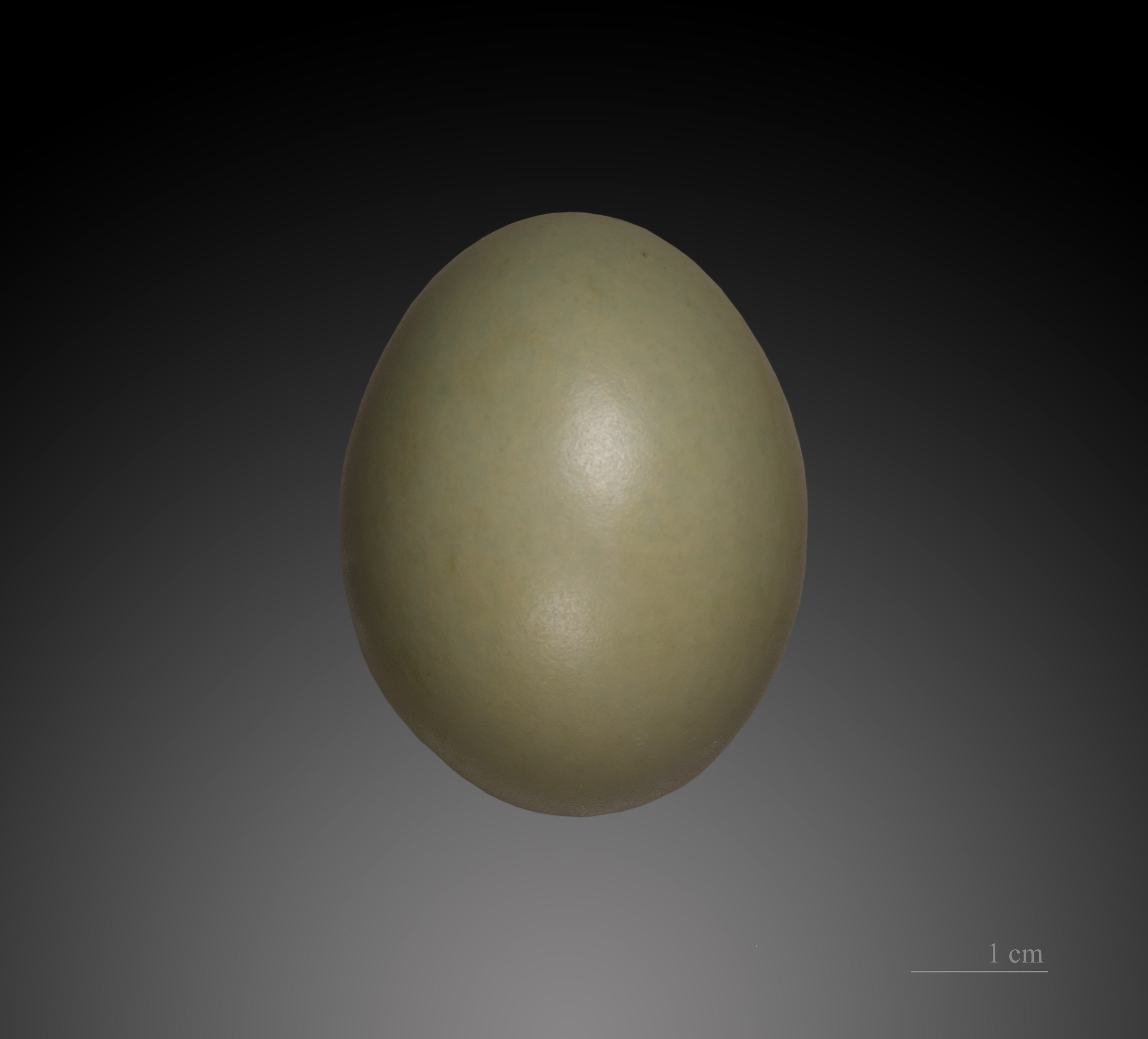 Egg of Common Pheasant. Collection of Jacques Perrin de Brichambaut.